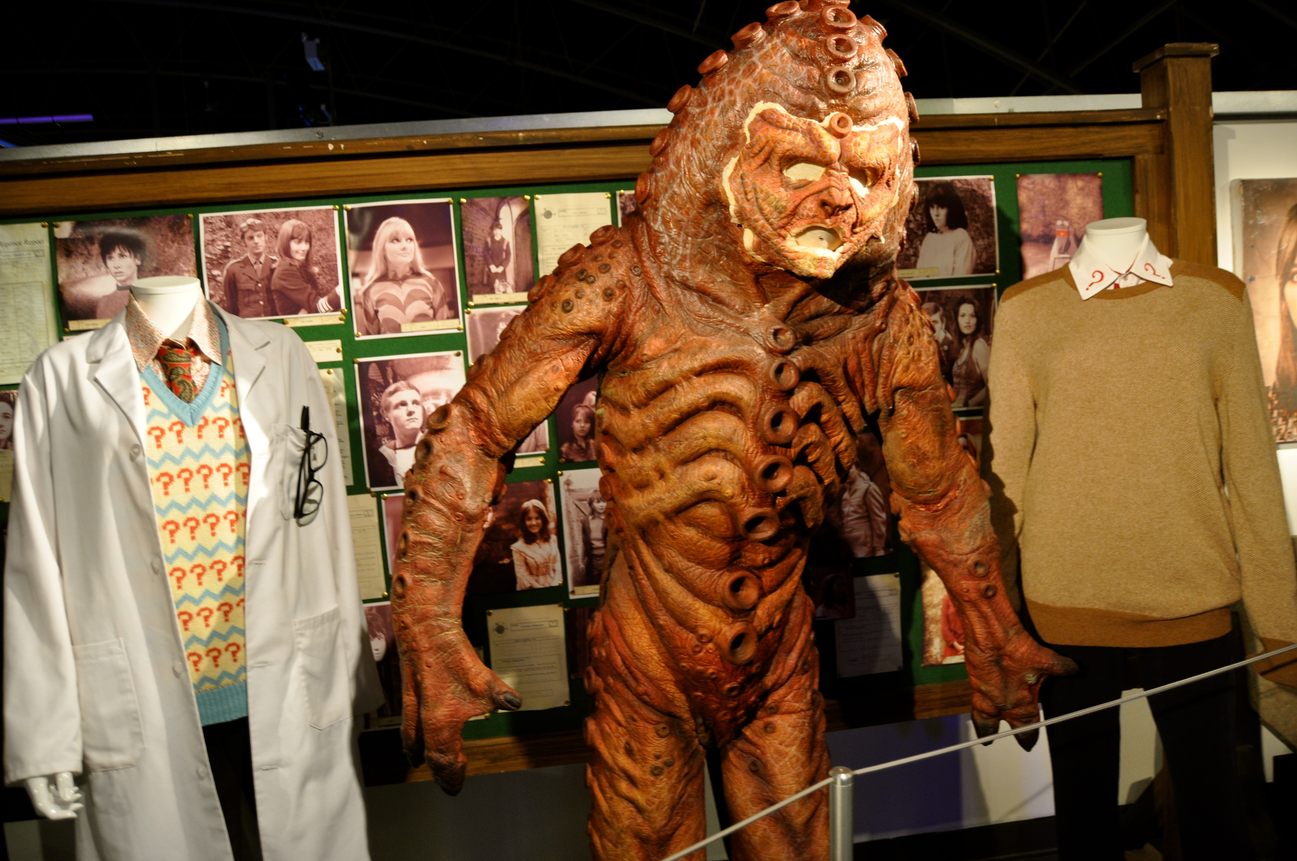 DWE Cardiff Bay, Port Teigr November 2016 Doctor Who Experience